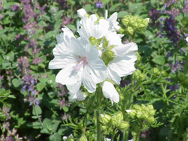 Species: Malva moschata Family: Malvaceae Image No. 1